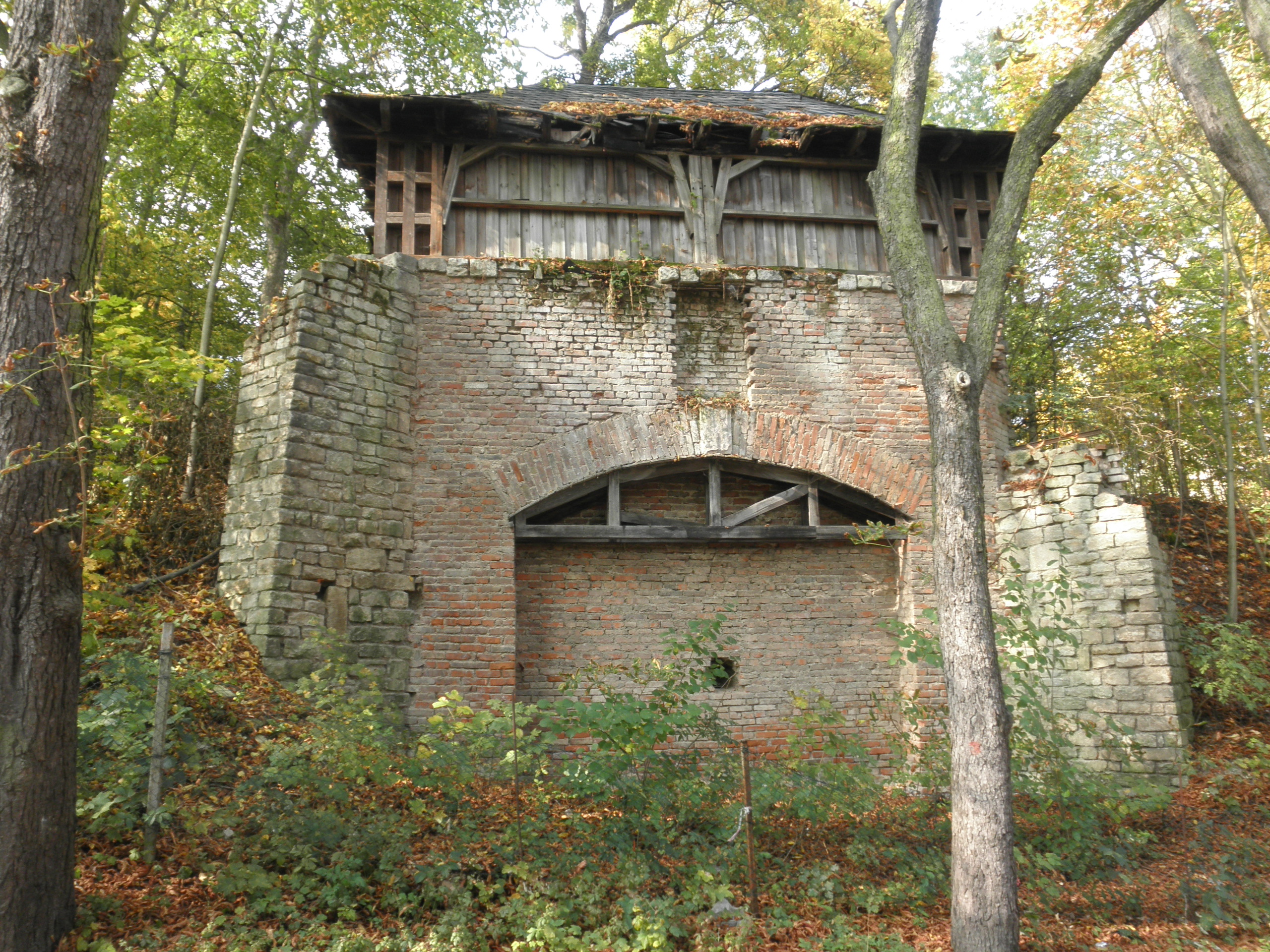 Civil Air Defence Bunker in Steigerwald in Erfurt